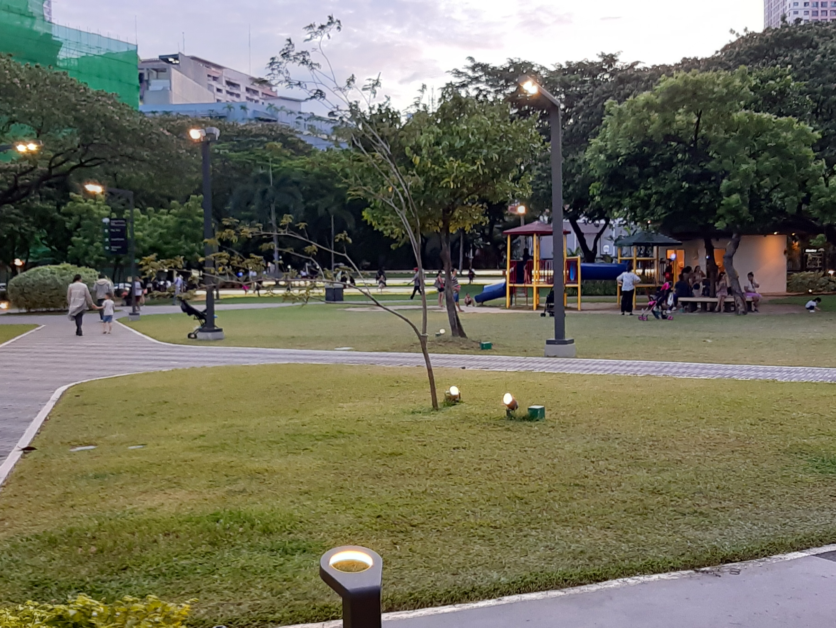 Legazpi Active Park in San Lorenzo Village, Makati CBD, Metro Manila